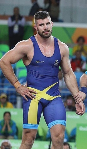 RIO DE JANEIRO (Tasnim) - Iranian wrestler Ghasem Rezaei defeated Sweden's Carl Fredrik Stefan Schoen early on Wednesday to win the bronze medal in the Men's Greco-Roman 98kg category at the Rio games.